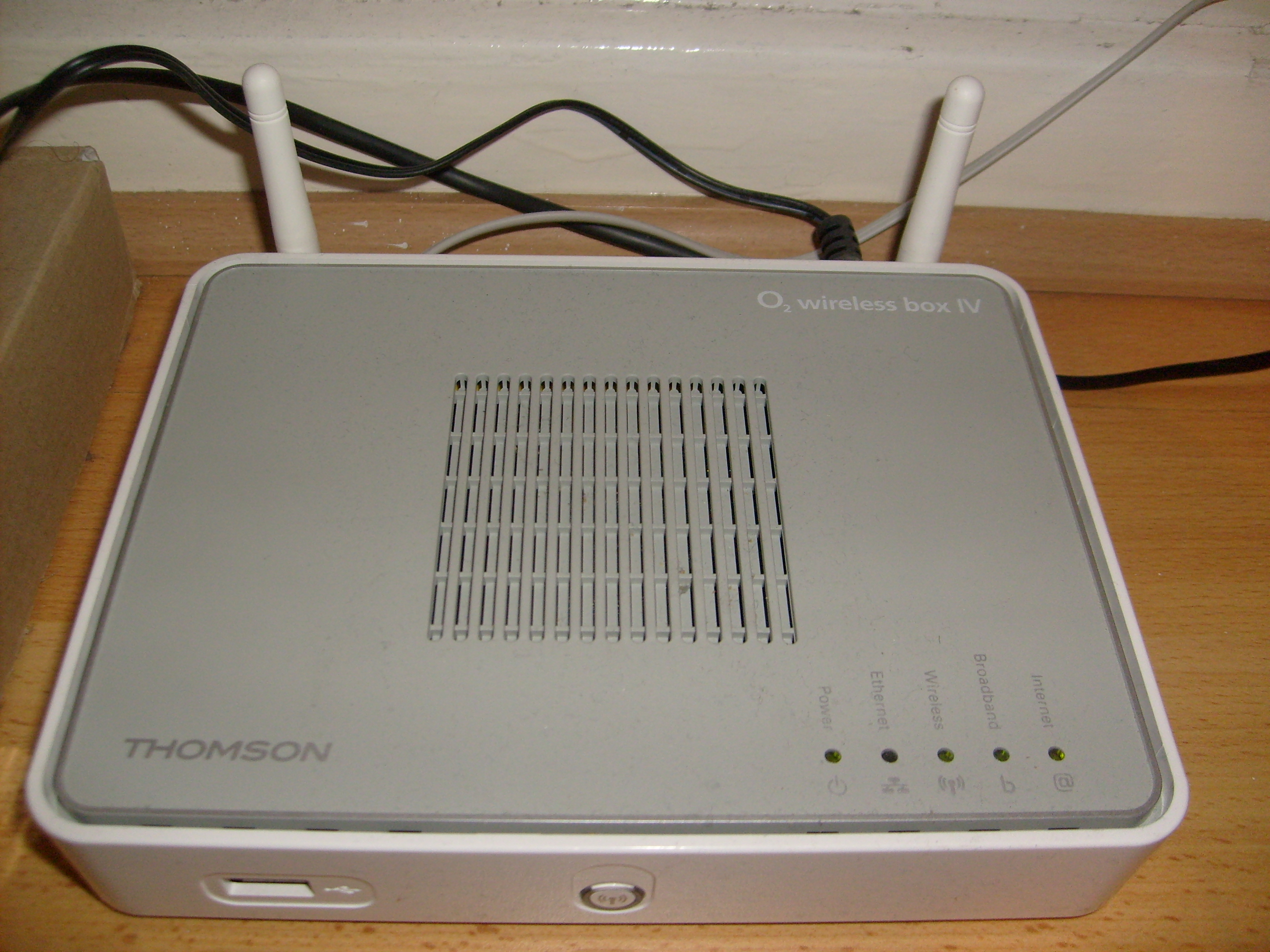 An "O2 Wireless Box IV" modem/router/wireless access point.